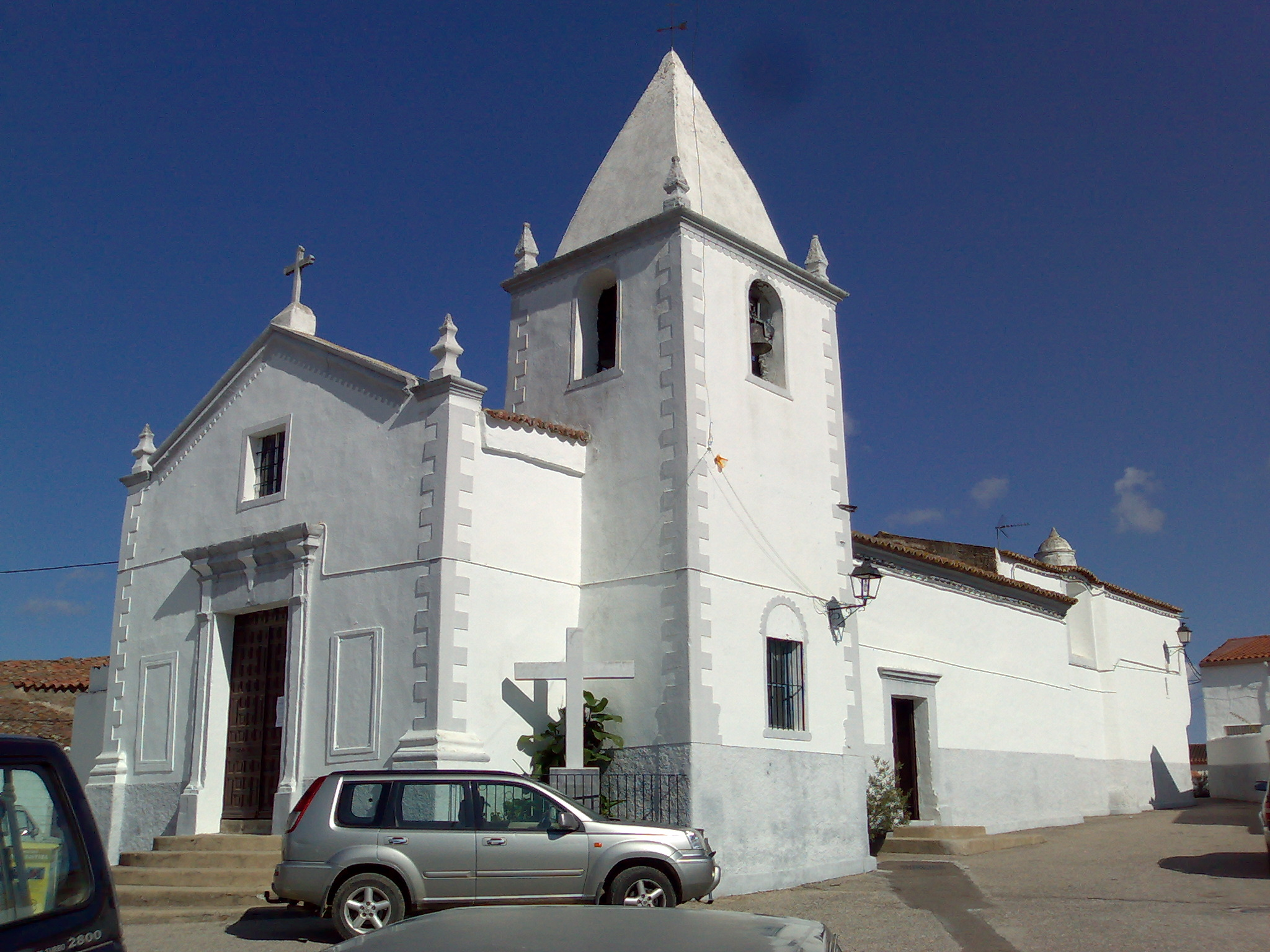 Táliga